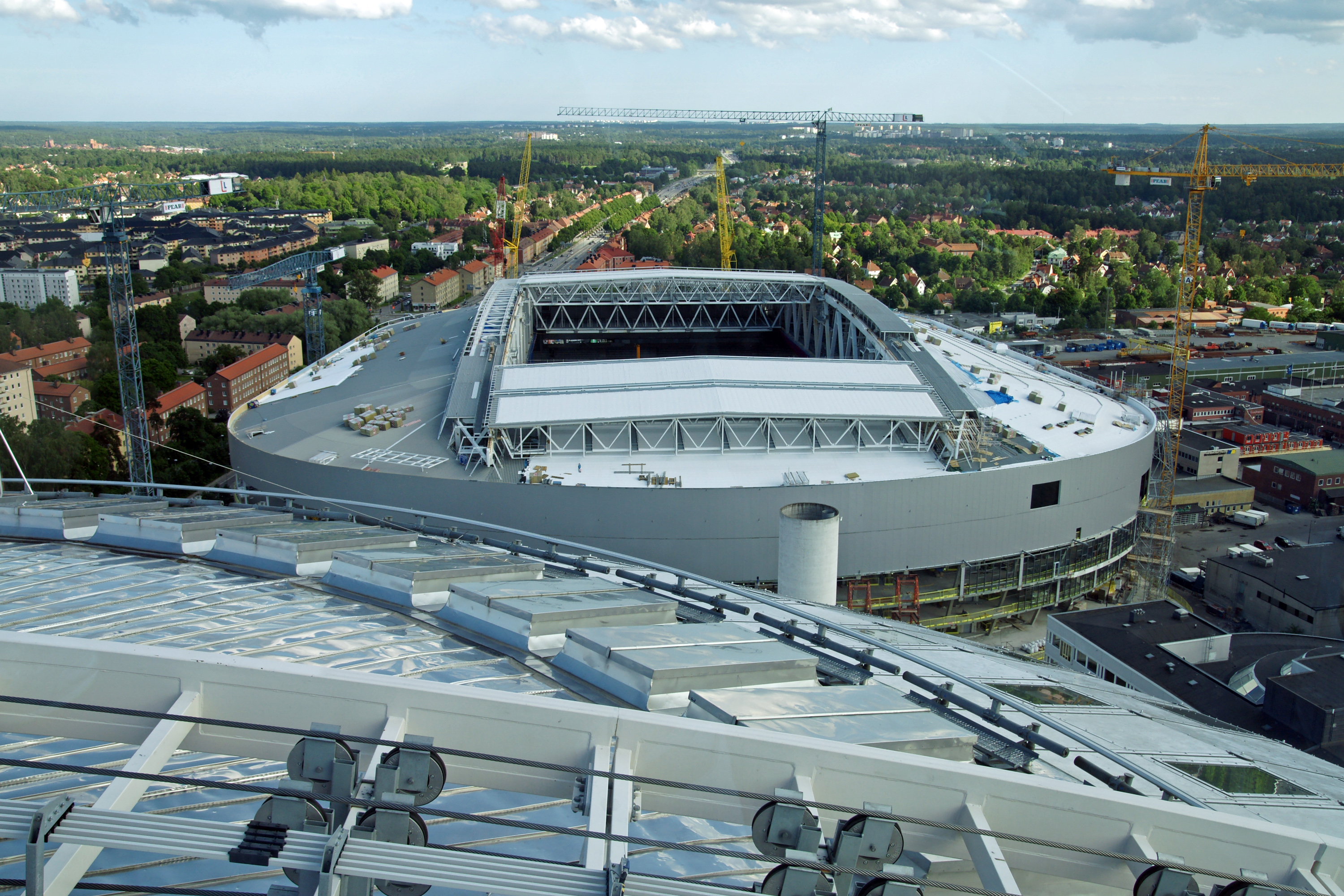 Tele2 Arena under construction. Photo taken from Globens funicular railway.